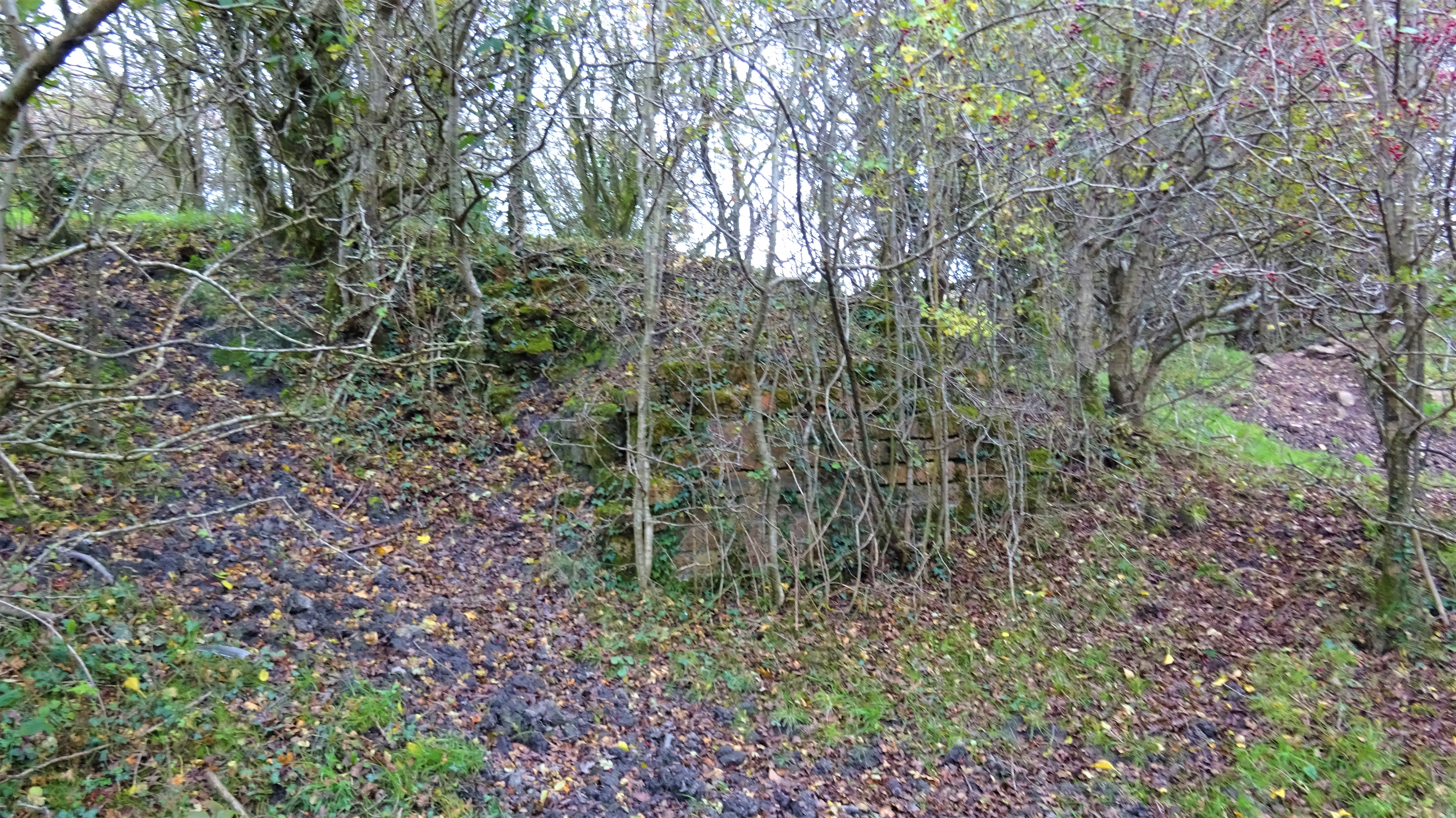 Gadgirth Pit ruins, Gadgirth Estate, South Ayrshire. Two pits are recorded. Two miners were killed in separate accidents in the late 19th century.